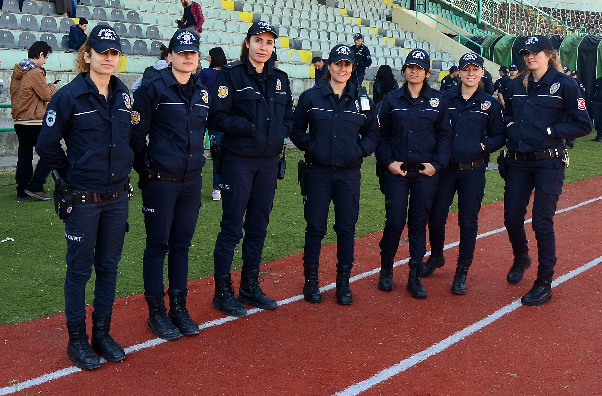 Female riot police squad (Çevik Kuvvet Polis) in Turkey